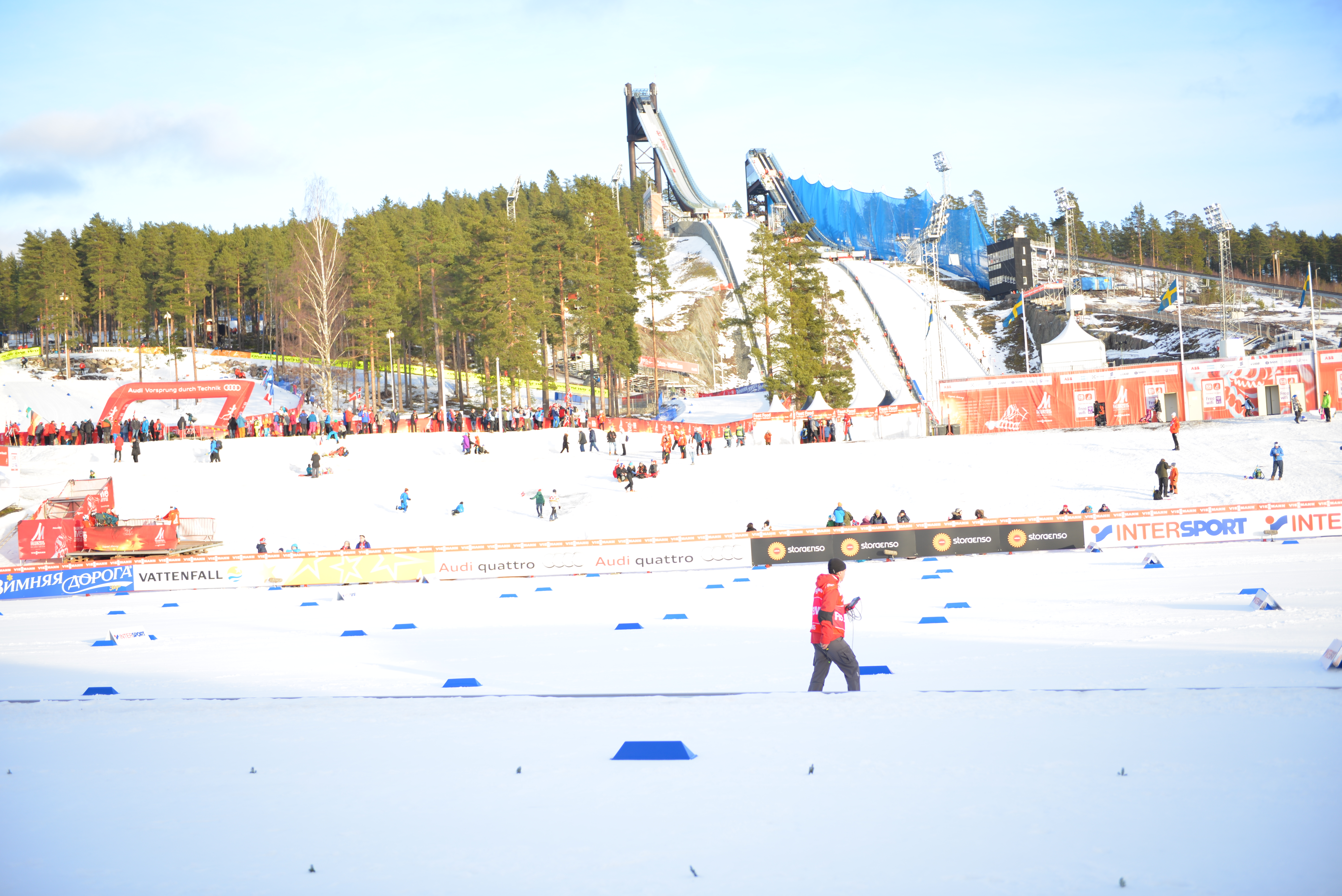 Panoramc view of the FIS Nordic World Ski Championships 2015 in Falun area, with cross-country stadium and ski jumping hills